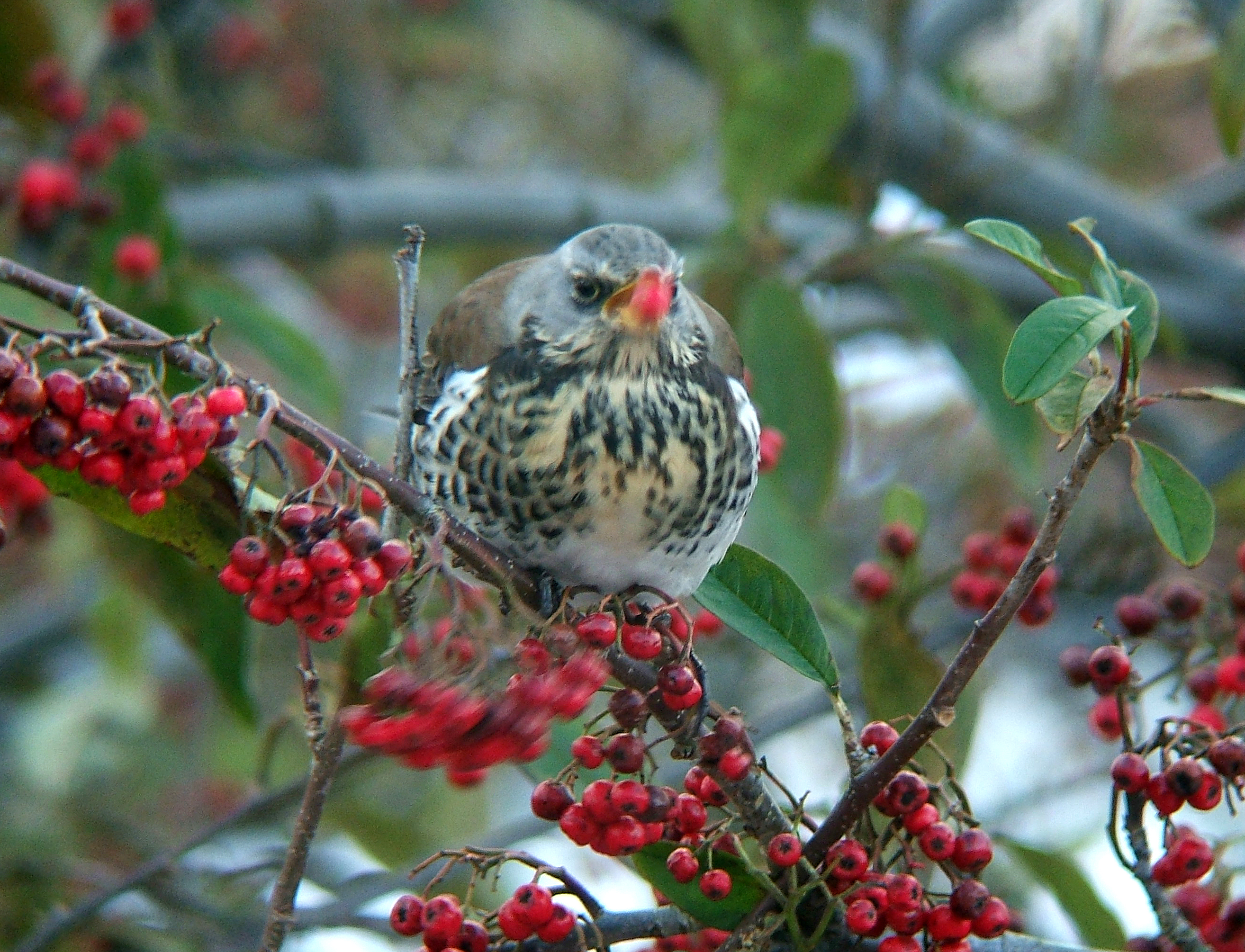 Turdus pilaris feeding on Cotoneaster frigidus berries. Jesmond Dene, Northumberland, UK.